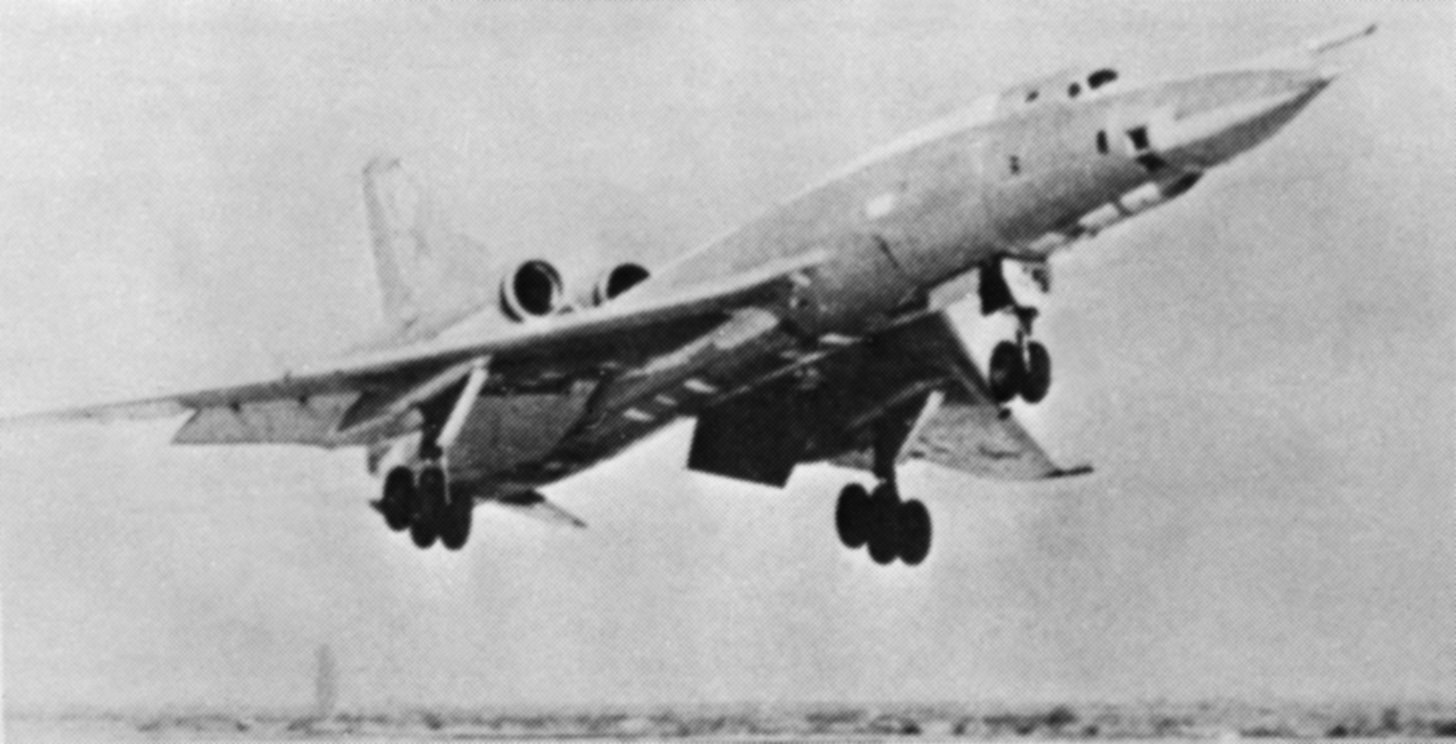 A right front underside view of a Soviet TU-22 Blinder bomber aircraft in flight. (Substandard image) Date Shot: 1 Jan 1977